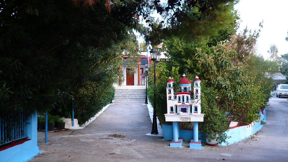 monastery